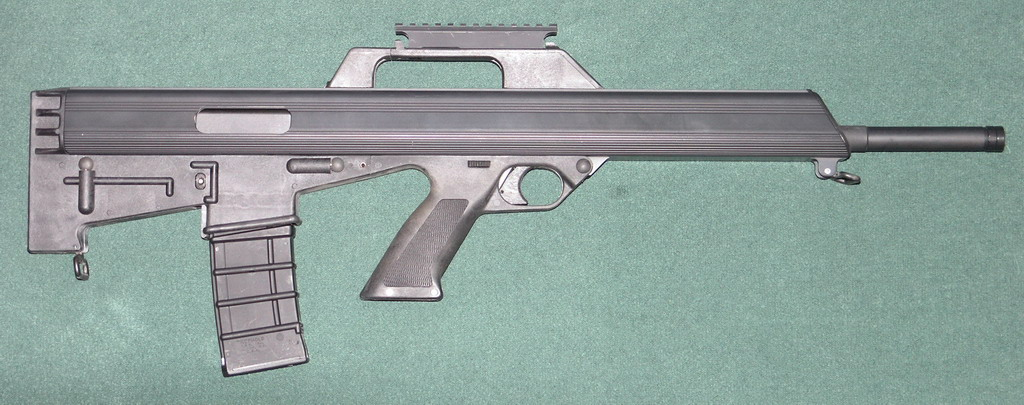 Photograph by me of my M17S on a green towel.